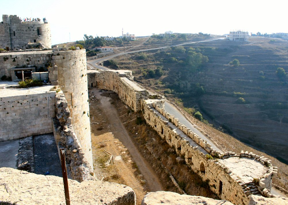 Space between the inner and outer walls